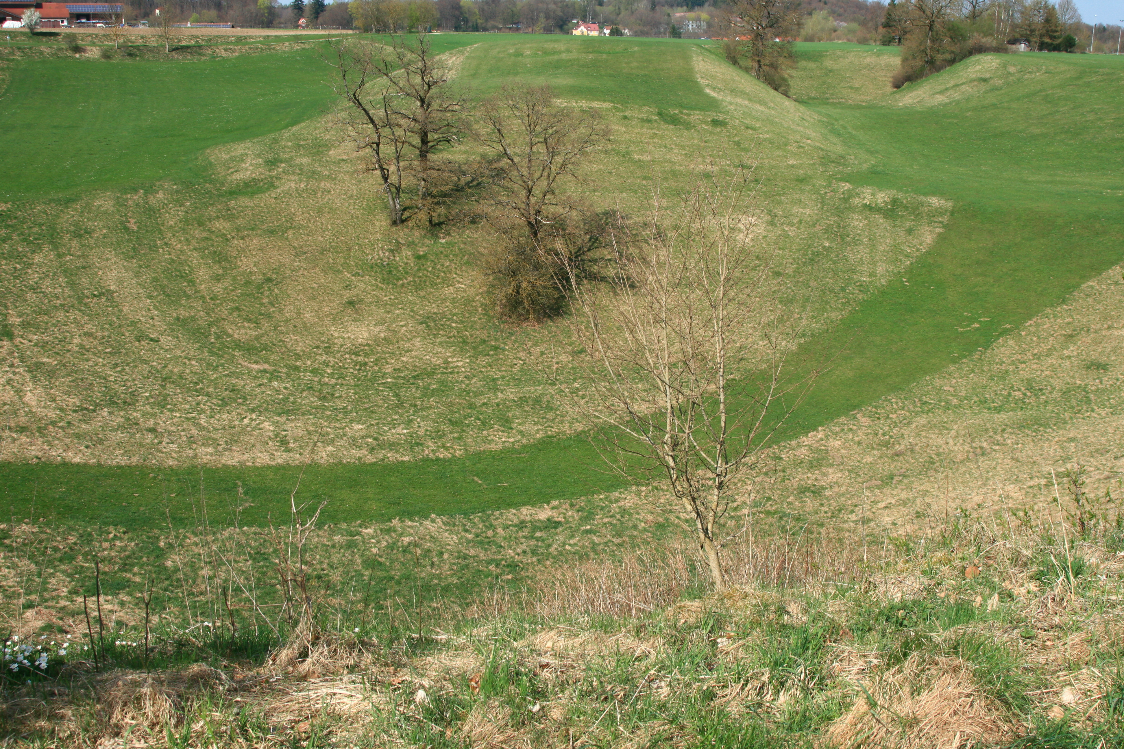 Hole (deep valley) formed by melting glacier situated in Unteralting - Grafrath, Upper Bavaria, Germany